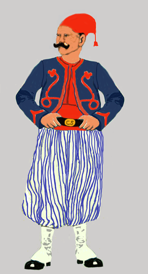 Uniform of the Confederate States Army „Wheats Tigers“ (1st Louisiana Special Battalion)